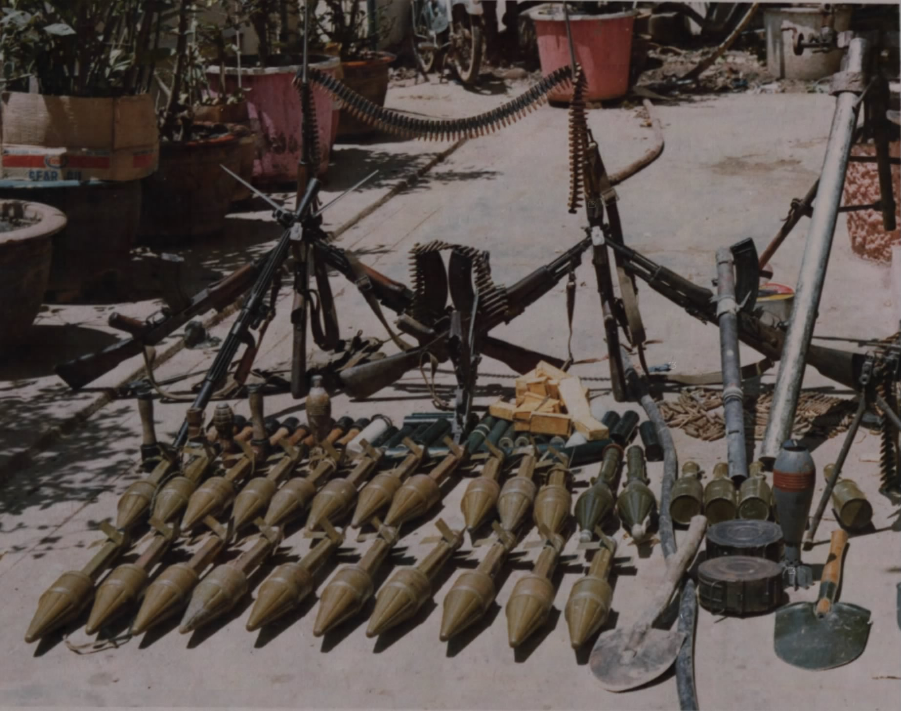 Tan Son Nhut. Rocket rounds, mortar round, ammo, grenades and rocket launchers were captured by ARVN Airborne troops during a sweep of the battle area surrounding the old French Cemetery.